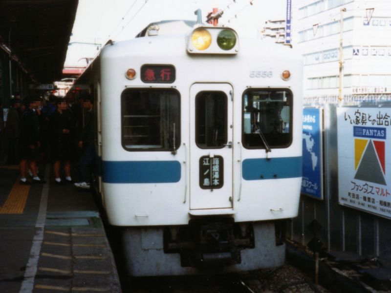 Odakyu Electric Railway Company, EMU Type 5000 No.5558